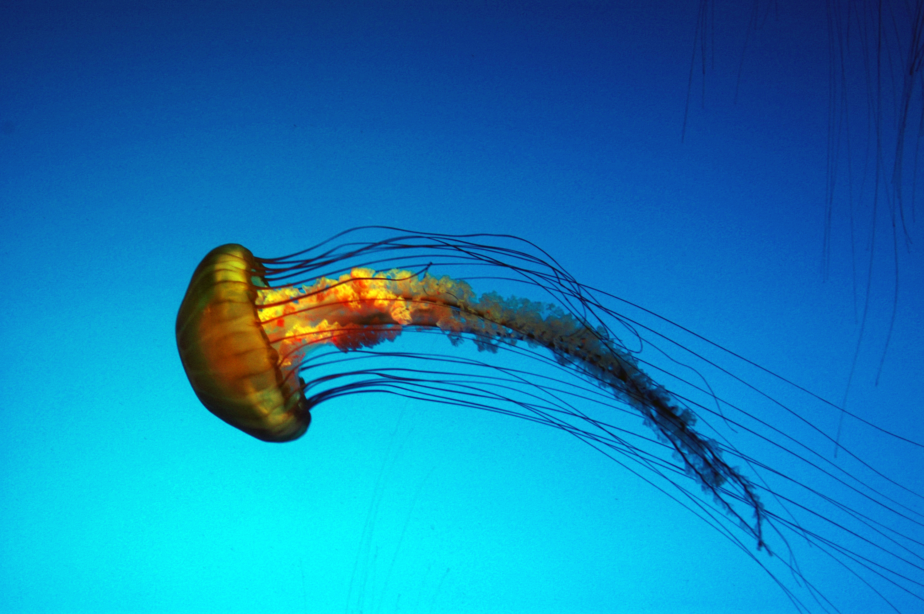 Shocking really. :) » See more about Mike Johnston here.